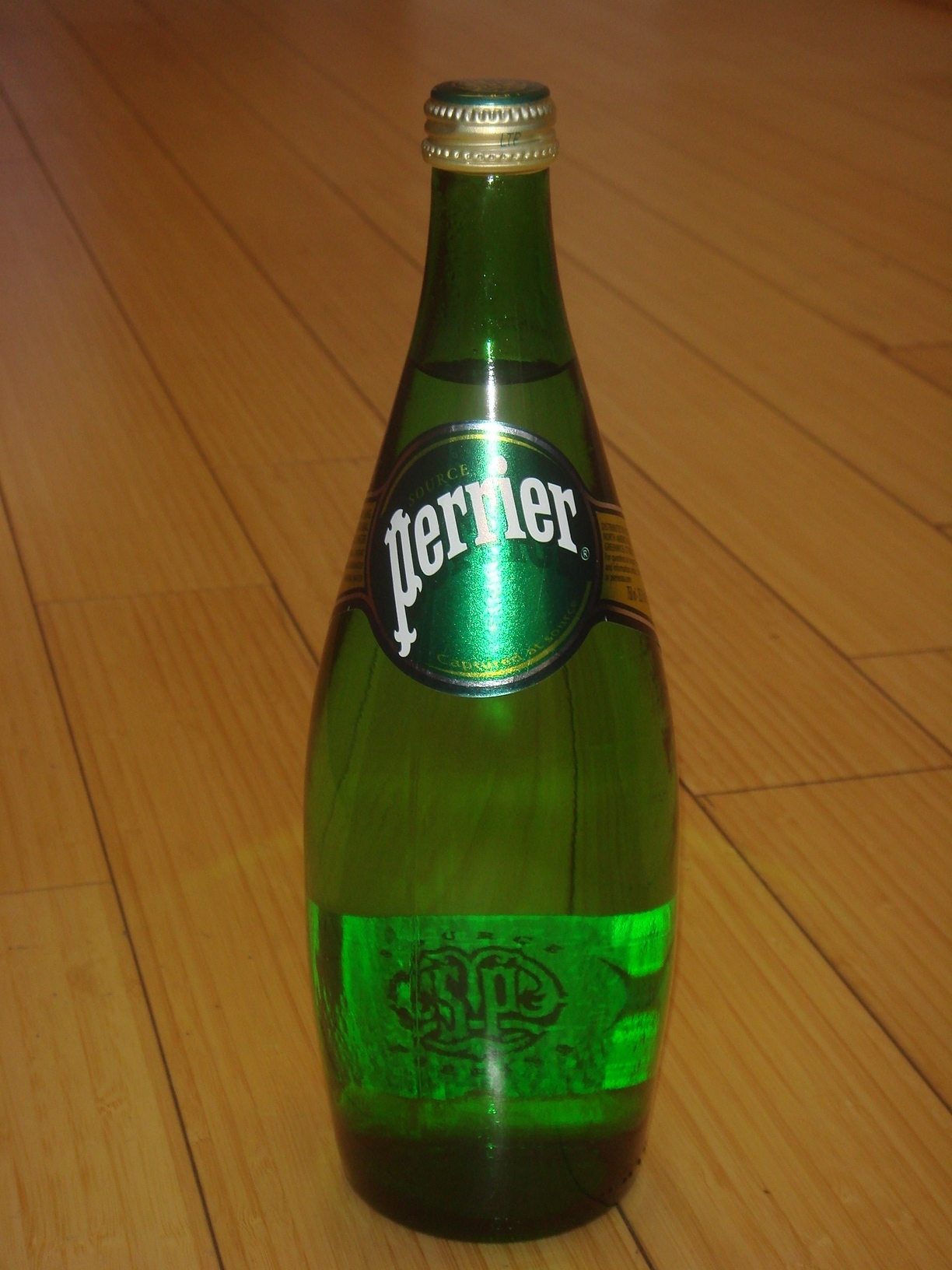 Perrier bottle